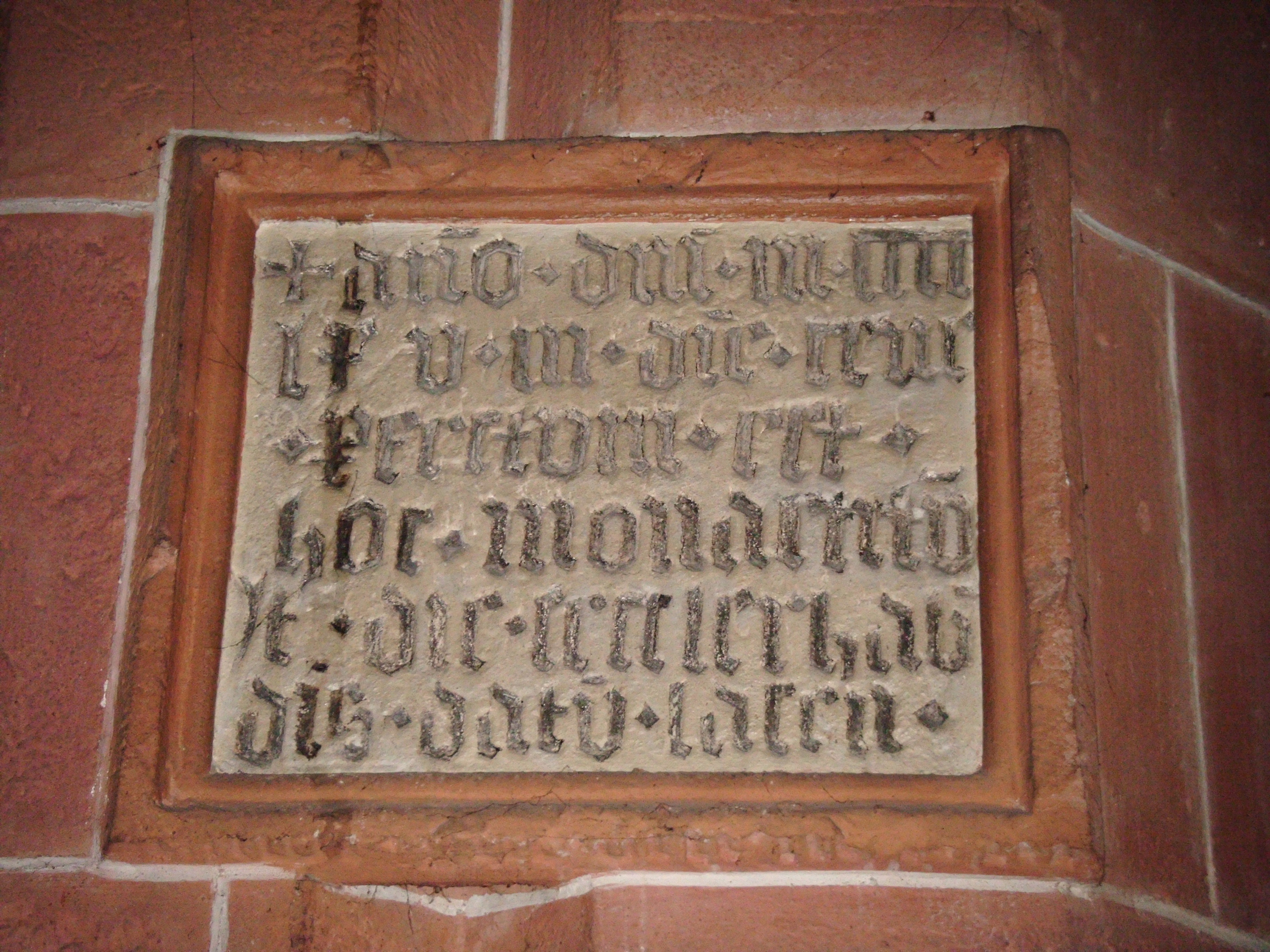 Worms Liebfrauenkirche Bauinschrift 1465